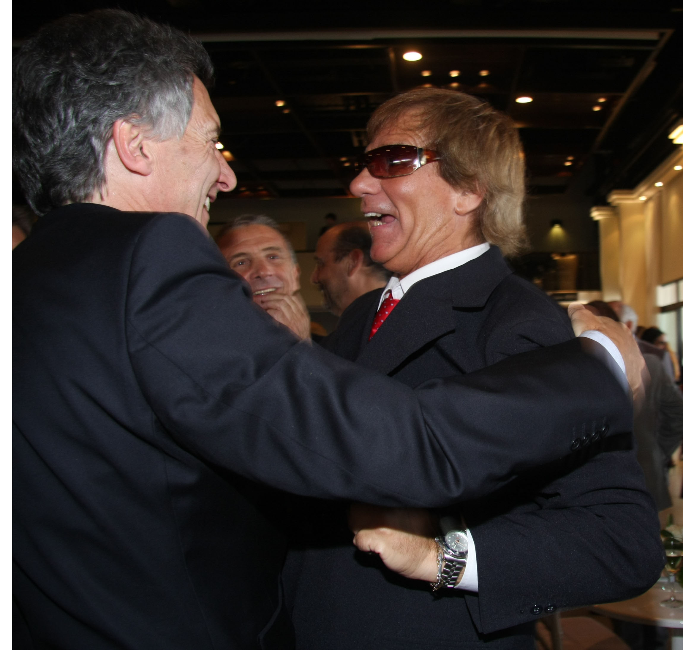 Buenos Aires - El entrenador y comentarista Héctor "Bambino" Veira saluda a Mauricio Macri.